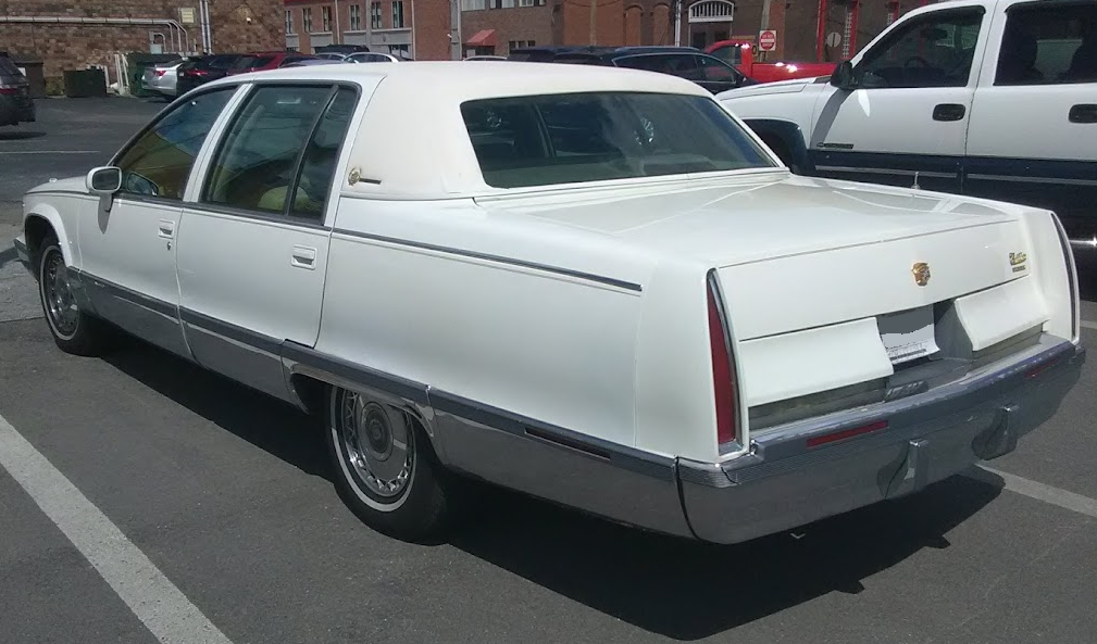 1993-1996 Cadillac Fleetwood Brougham photographed in New Castle, Pennsylvania.